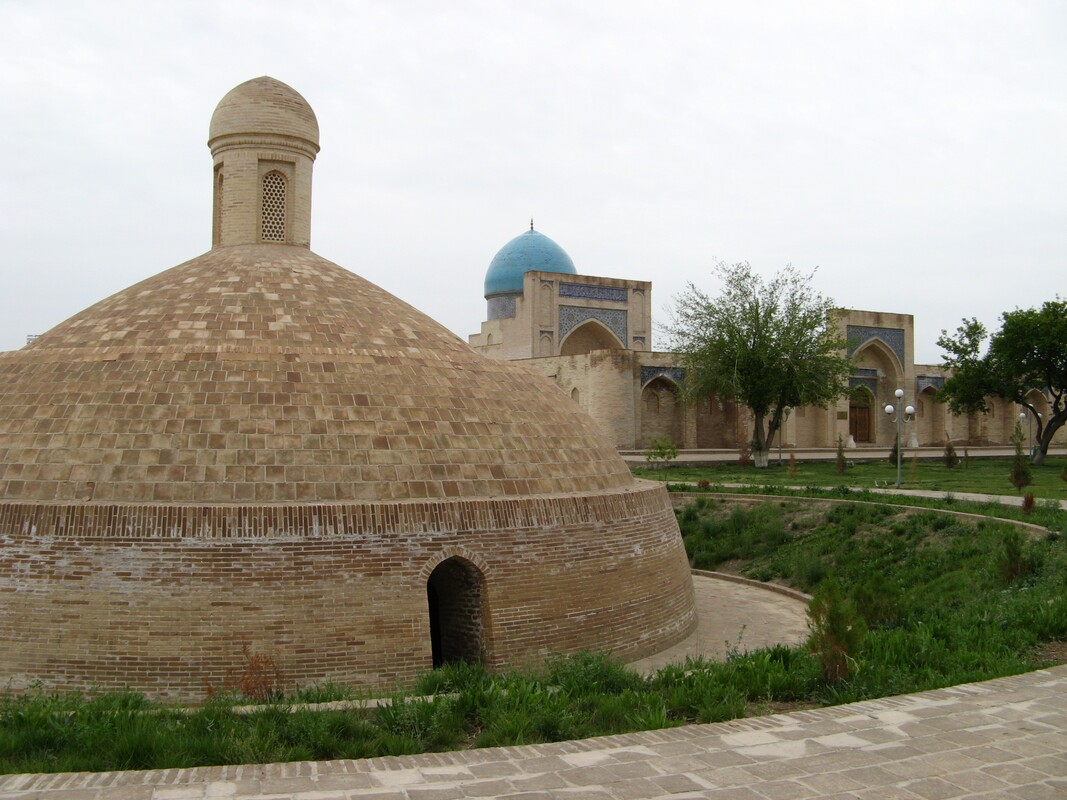 The Kok Gumbaz Mosque, in Qarshi, and an old water cistern.